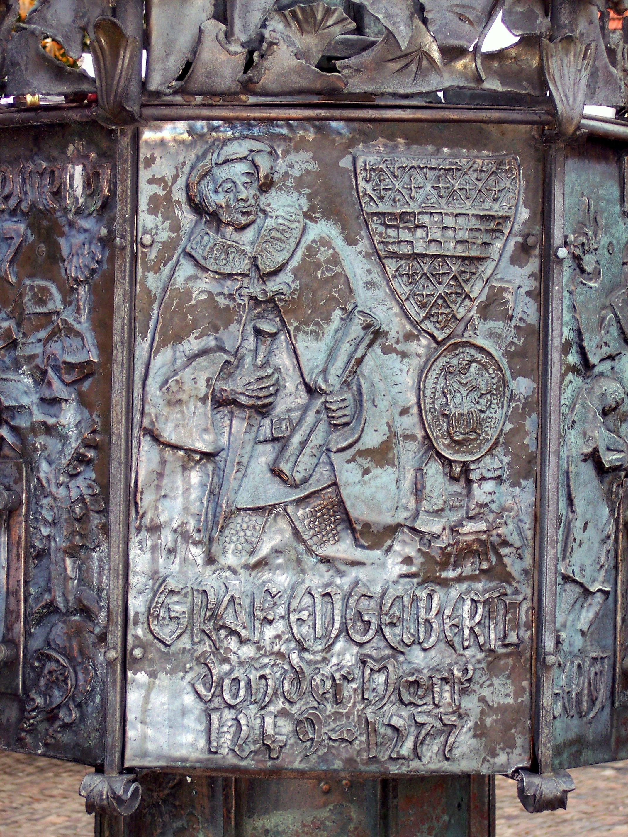 Luedenscheid, Graf-Engelbert-Platz, well, relief of Duke Engelbert I.